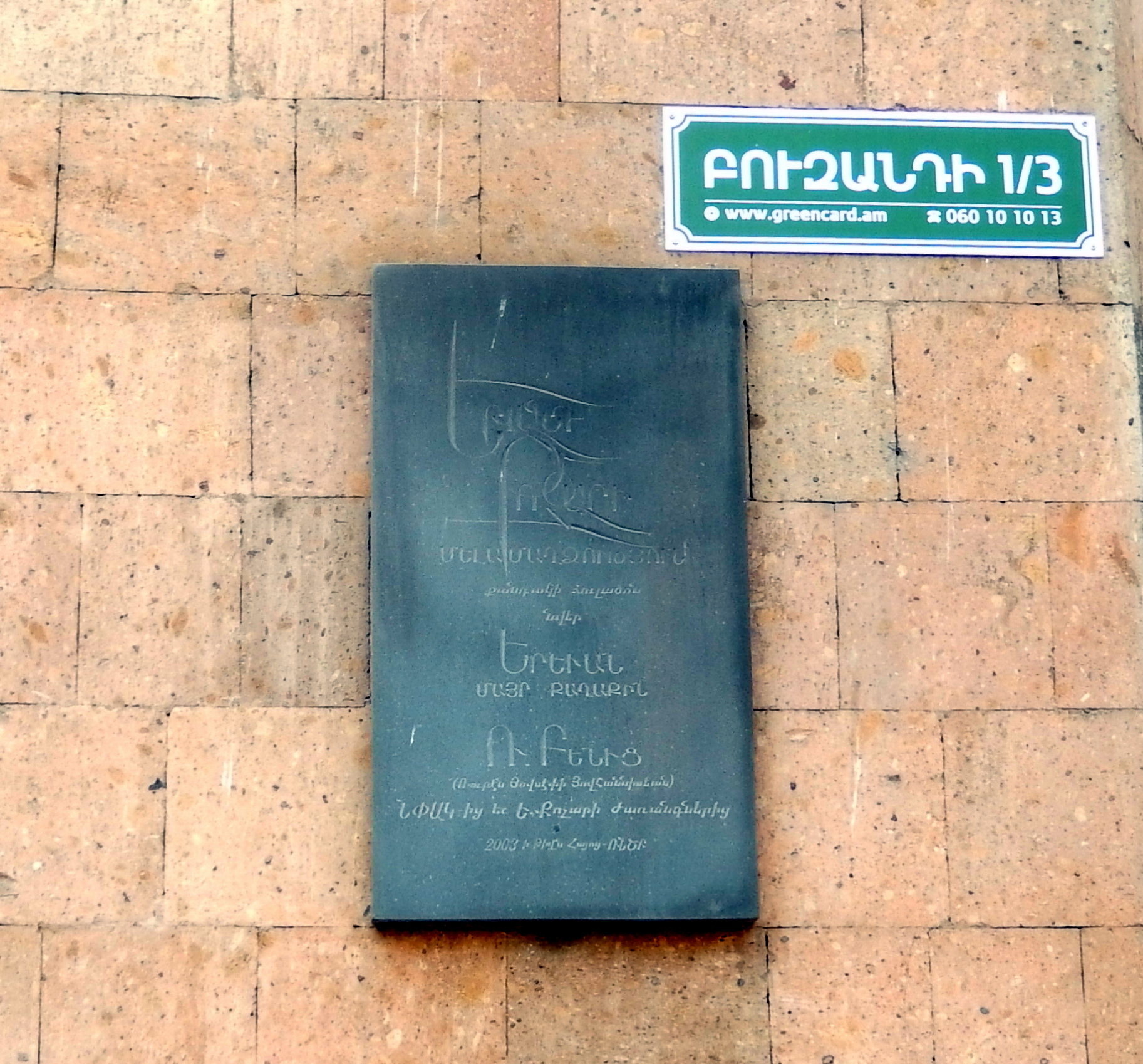 Plaque for statue "Melancholy" by Yervand Kochar